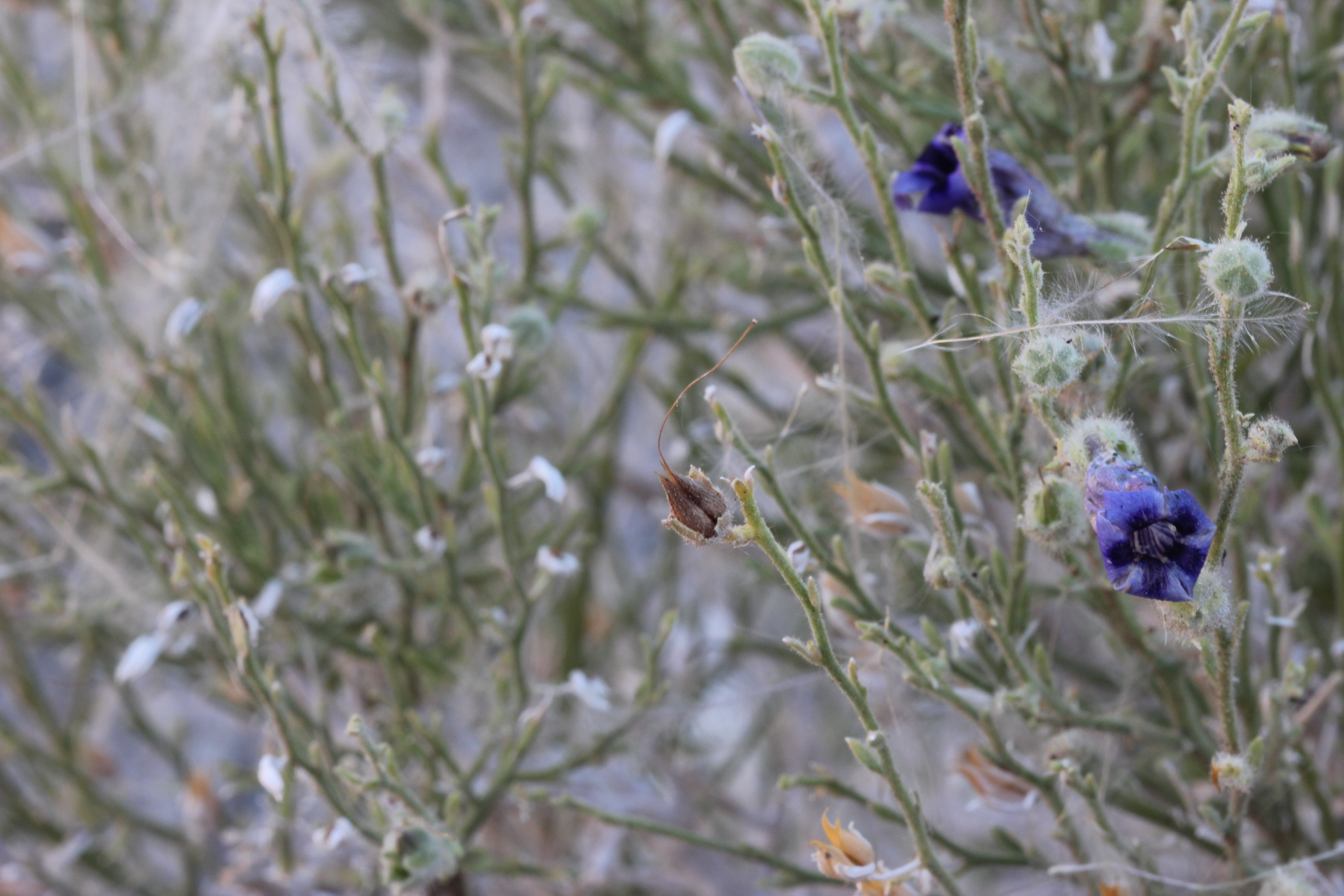 Anticharis scoparia (E.Mey. ex Benth.) Hiern ex Schinz Details of flower and fruit capsule